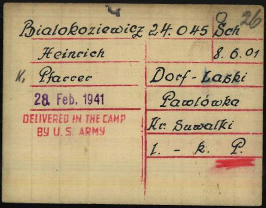 Registration card of Henryk Białokoziewicz as a prisoner at Dachau Nazi Concentration Camp. Red stamp means he was liberated from Dachau by the U. S. Army.